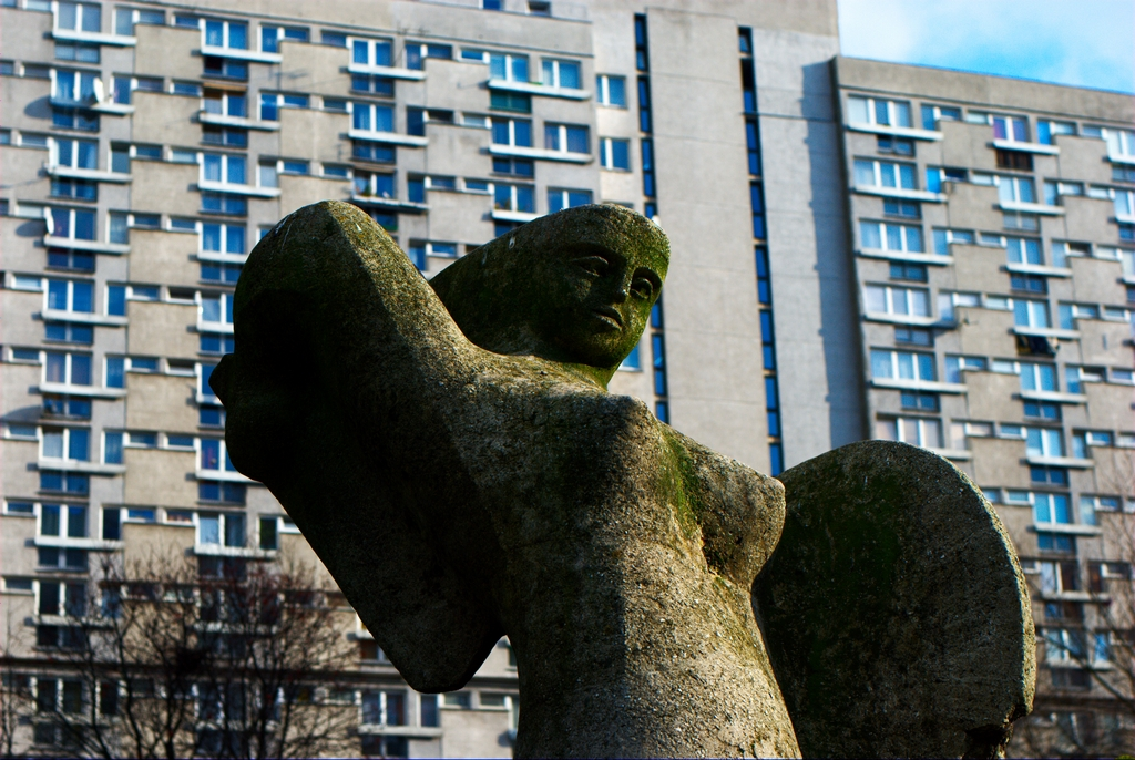 Syrenka za Żelazną Bramą